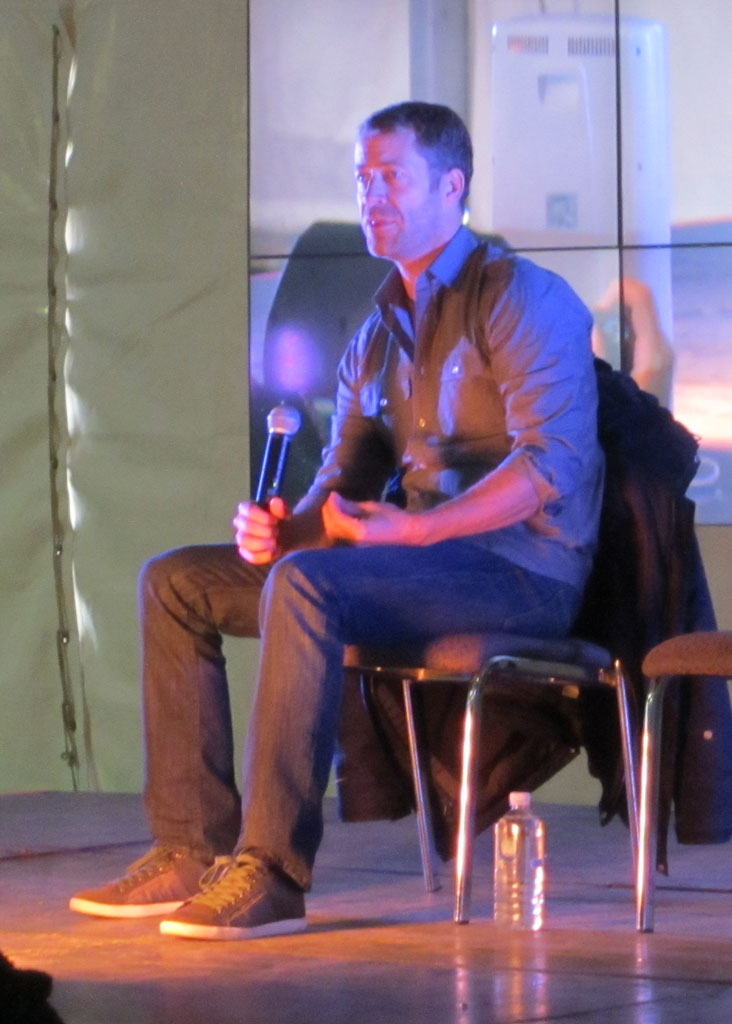 Ferguson at Oz Comic-Con Melbourne in 2013